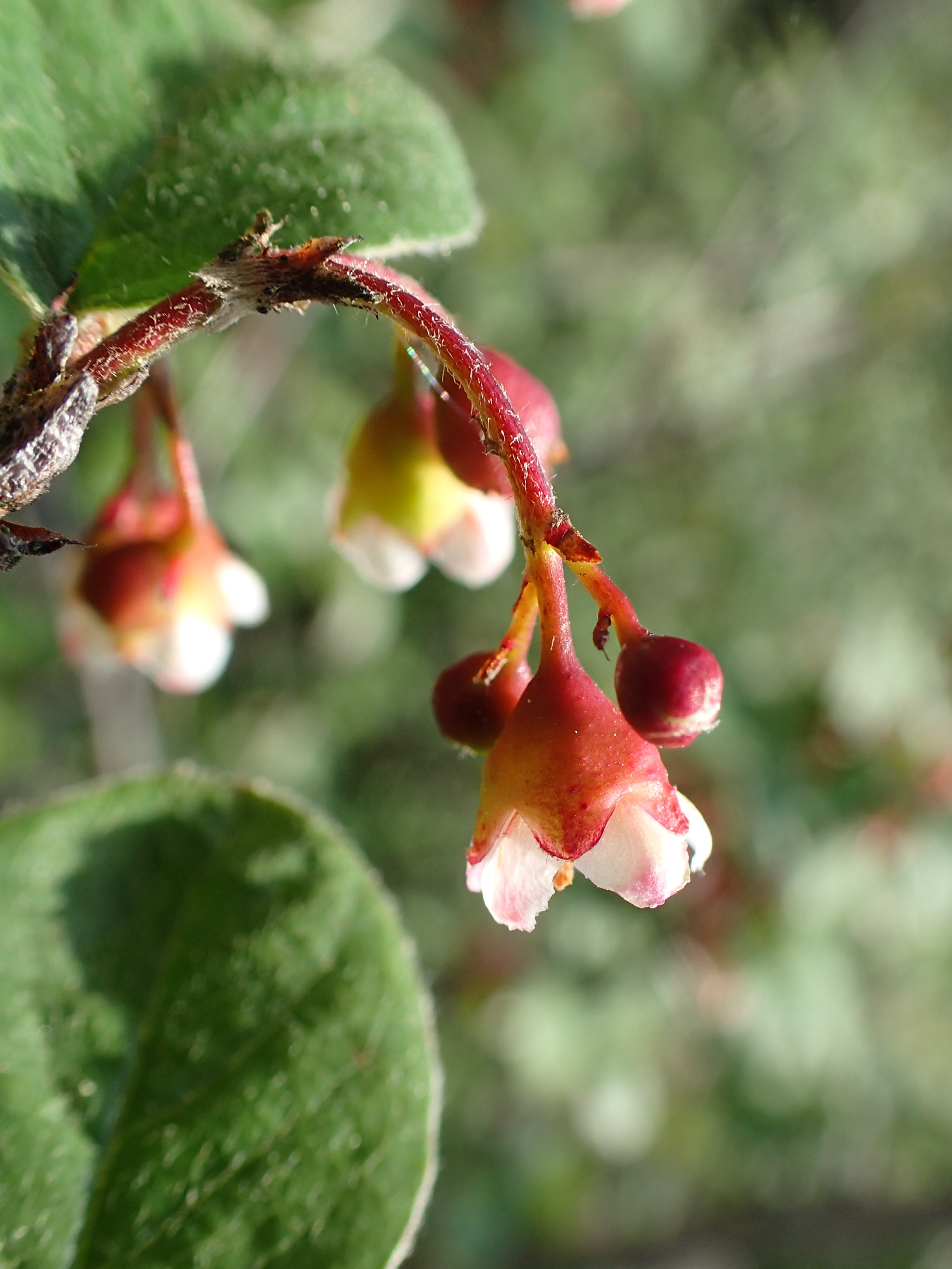 Cotoneaster melanocarpus in PAN Botanical Garden in Warsaw